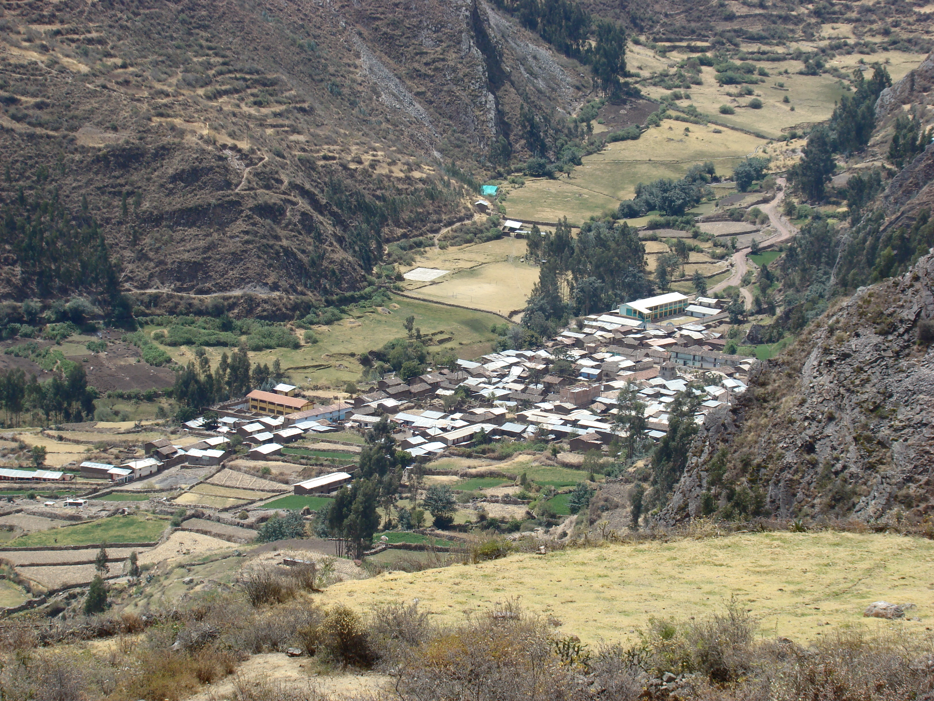 The village of Llamac from the path which leads to Jahuacocha Lagoon.